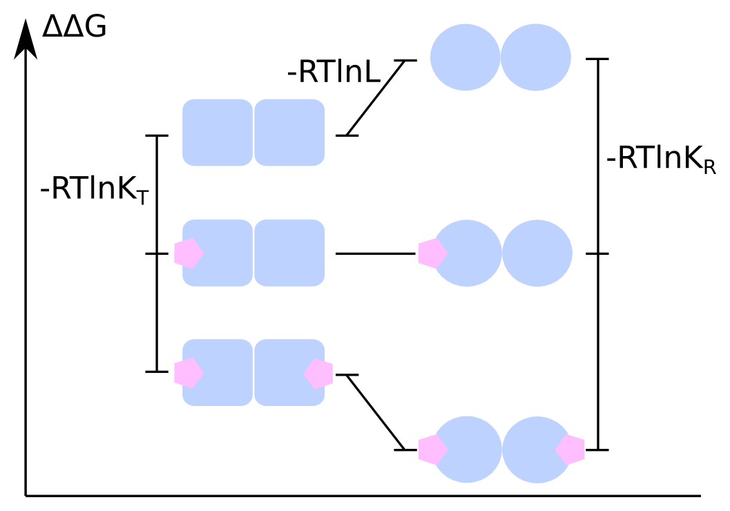 Energy diagram showing the stabilisation of a conformation by an allosteric effector. L is the allosteric constant equal to [T0][R0], KT and KR are the dissociation constant of the basal and active state (tense and relaxed) respectively.